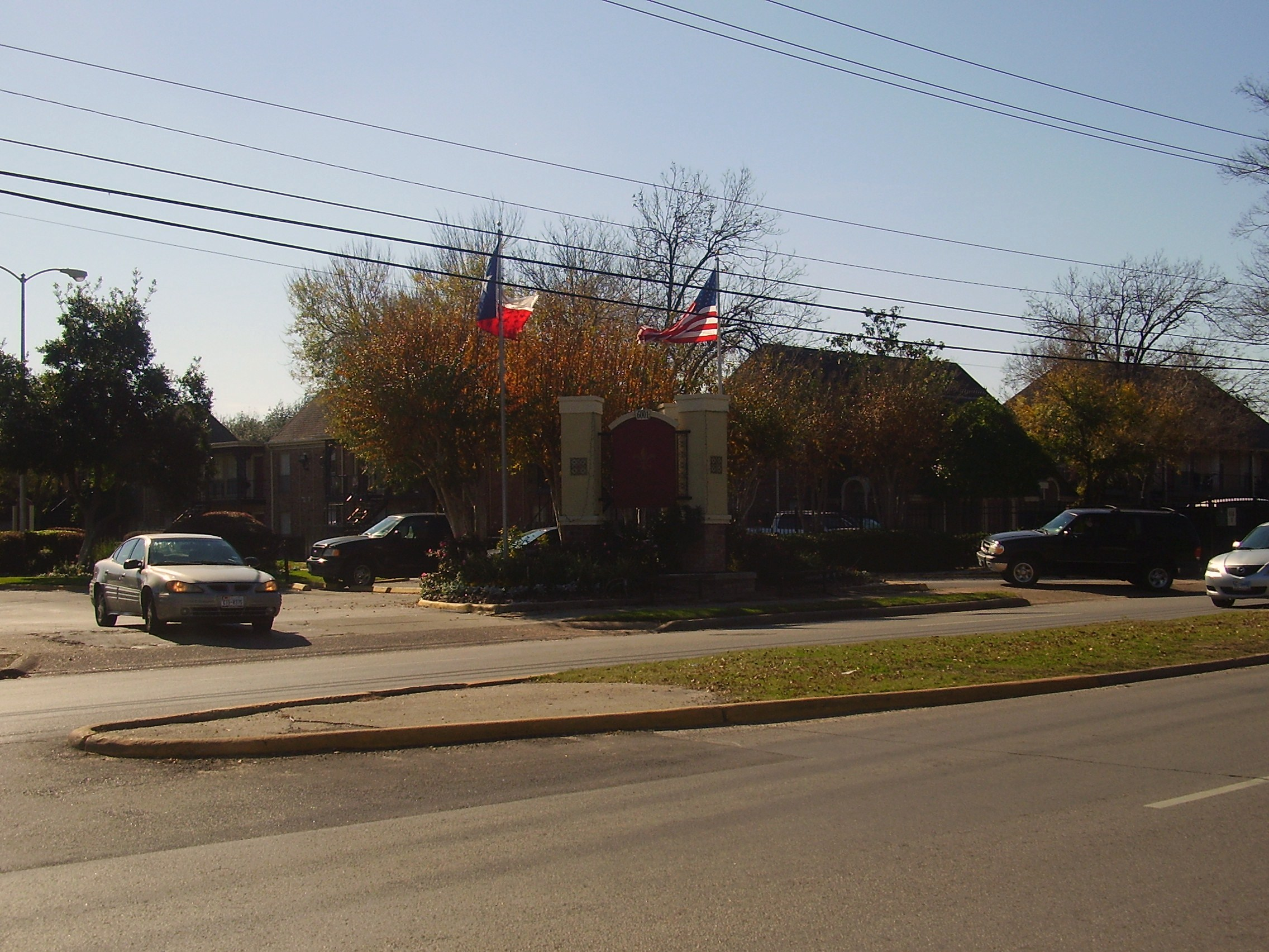 Main entrance of Napoleon Square Apartments - 6001 Gulfton Dr, Houston, Texas 77081